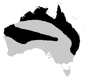 Range of Opisthodon. User:Froggydarb/custom.